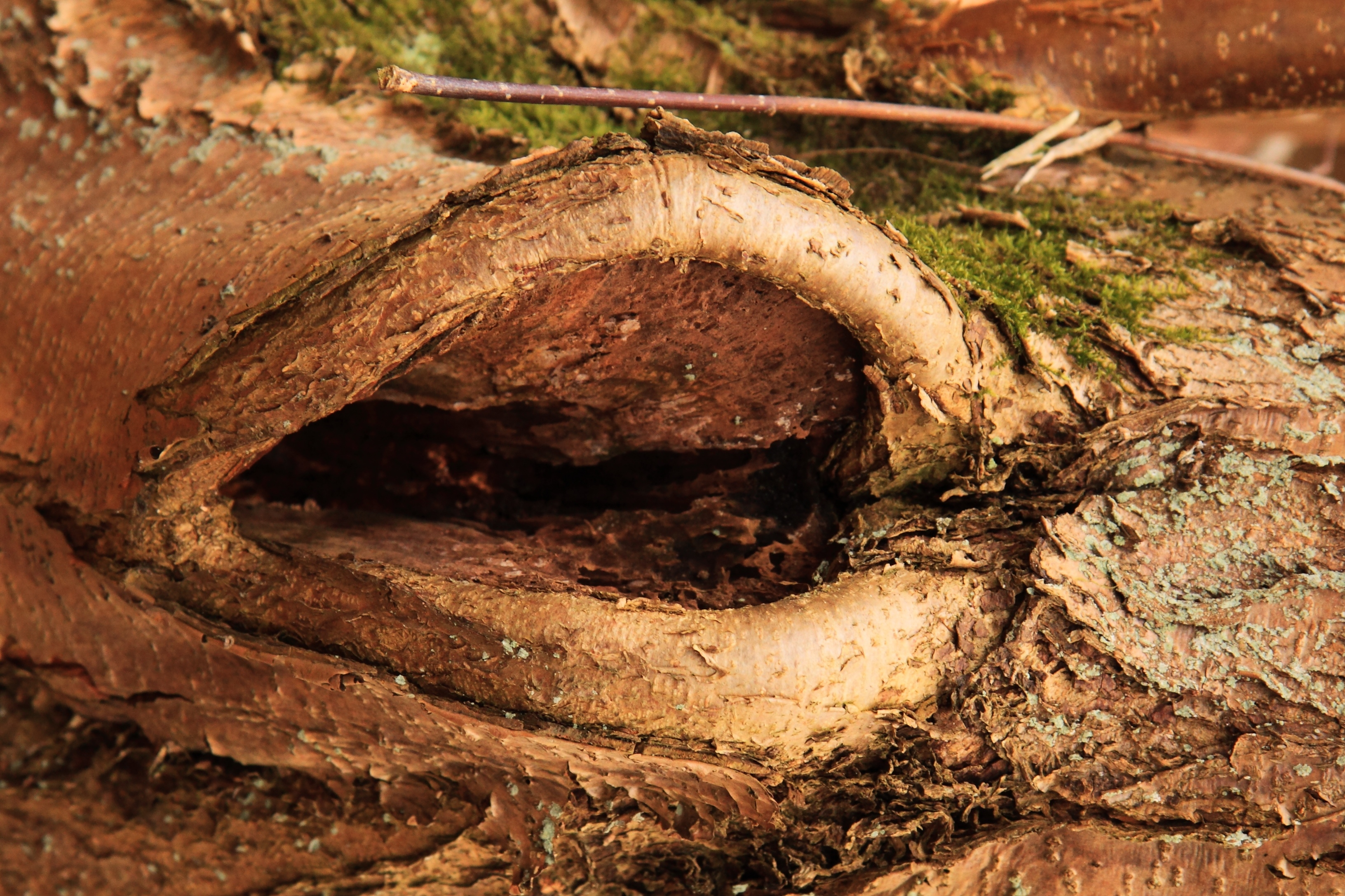 If wood could talk...